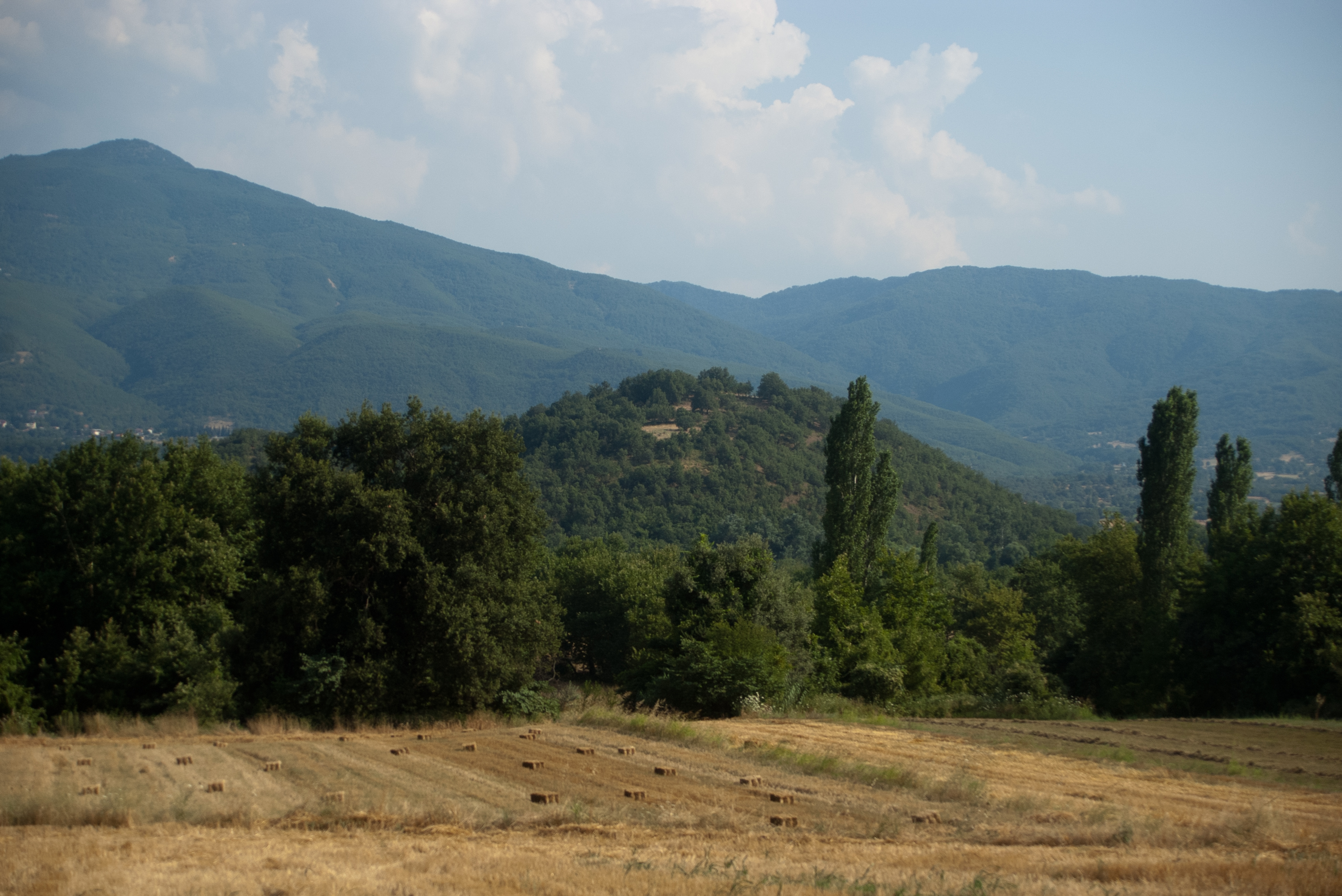 The hill of Kastrorakhi seen from Vitoli, Makrakomi, Greece.